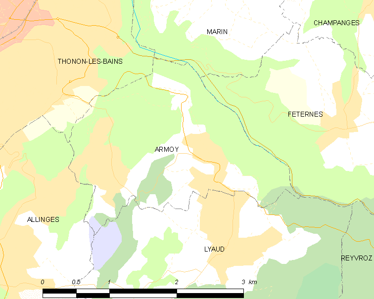 Map of French municipality Armoy